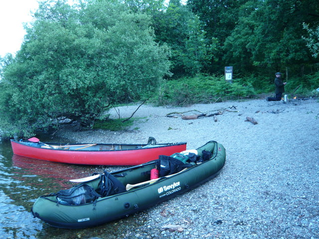 Clairinsh Evening paddlers take a break on Clairinsh